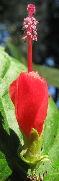 A Malvaviscus arboreus flower.